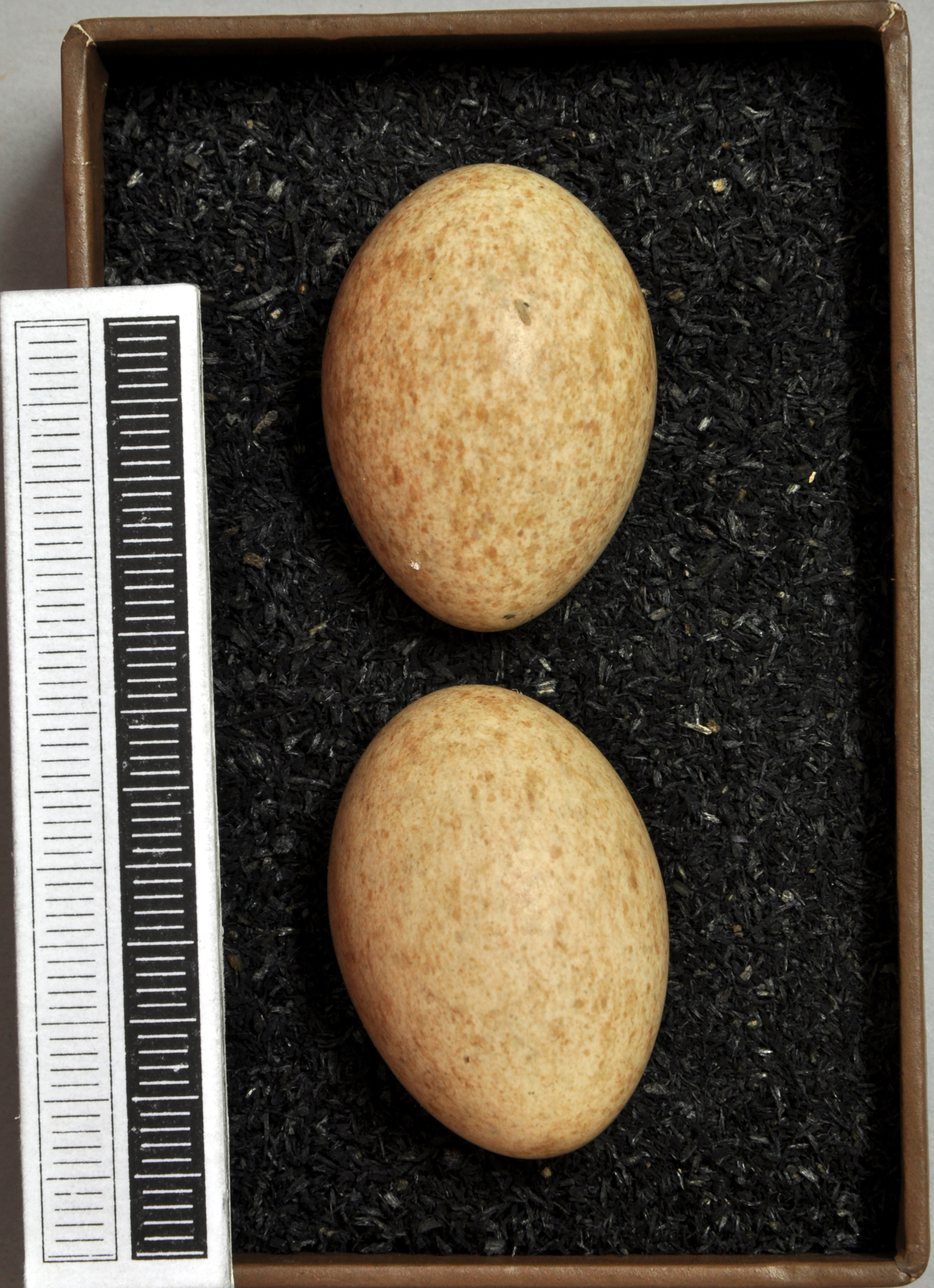 Little crake Porzana parva , egg, Coll. Museum Wiesbaden